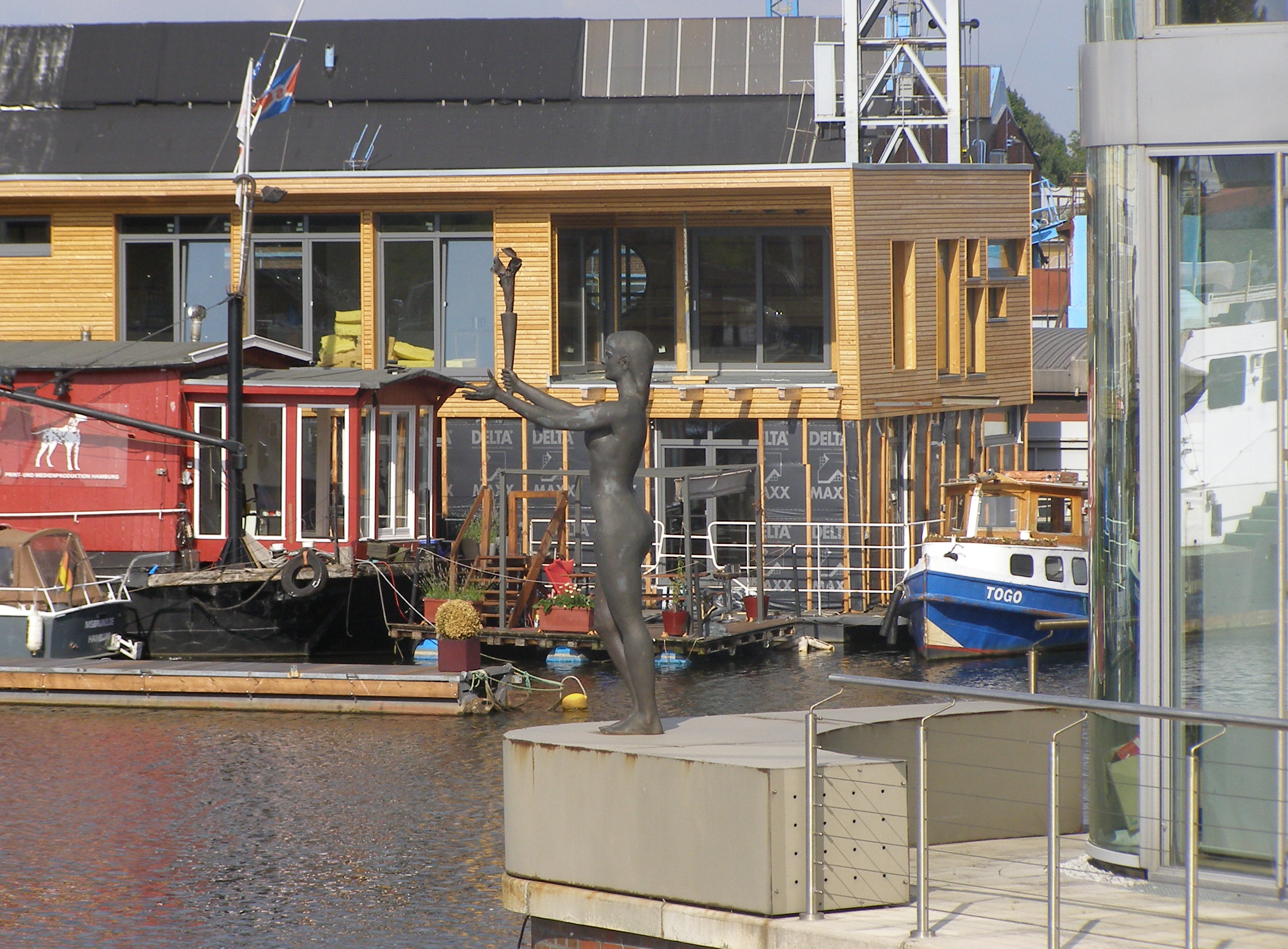 Statue of Veritas at the German headquarters of Bureau Veritas in Harburg, Hamburg, Germany